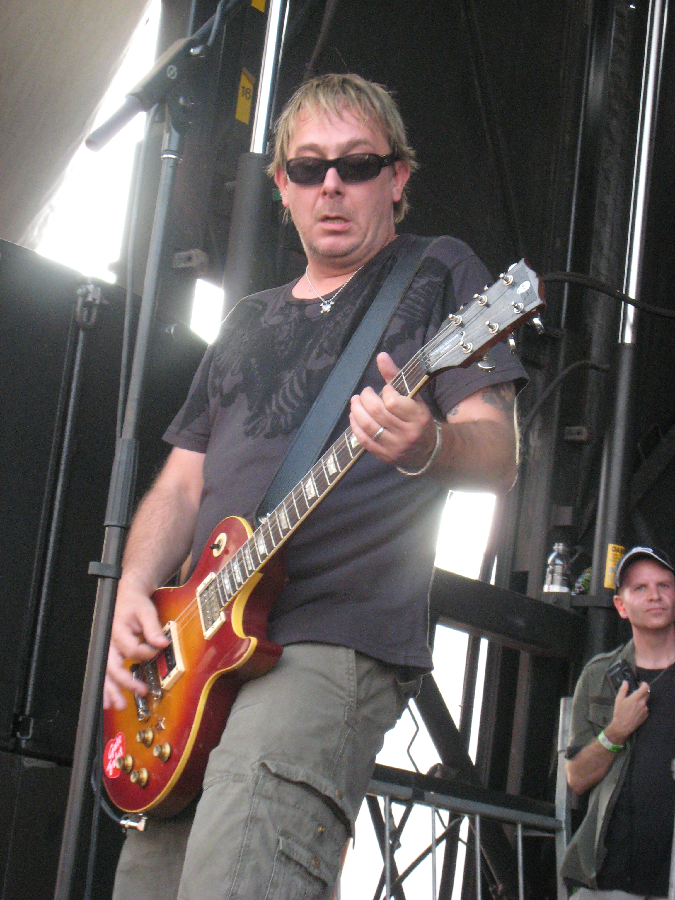 Phreakuency's Favorite Band - Bad Religion.